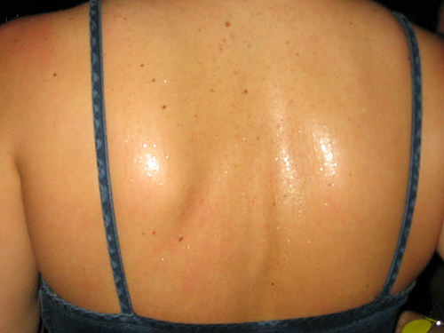 The sweaty back of a statuesque blonde attending a Clumsy Lovers concert in Boise, Idaho.